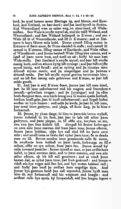 The text in Old English by Wulfstan of Hedeby in which Prussians (E'stum) and their customs were mentioned. The screenshot was made from 1859 edition.